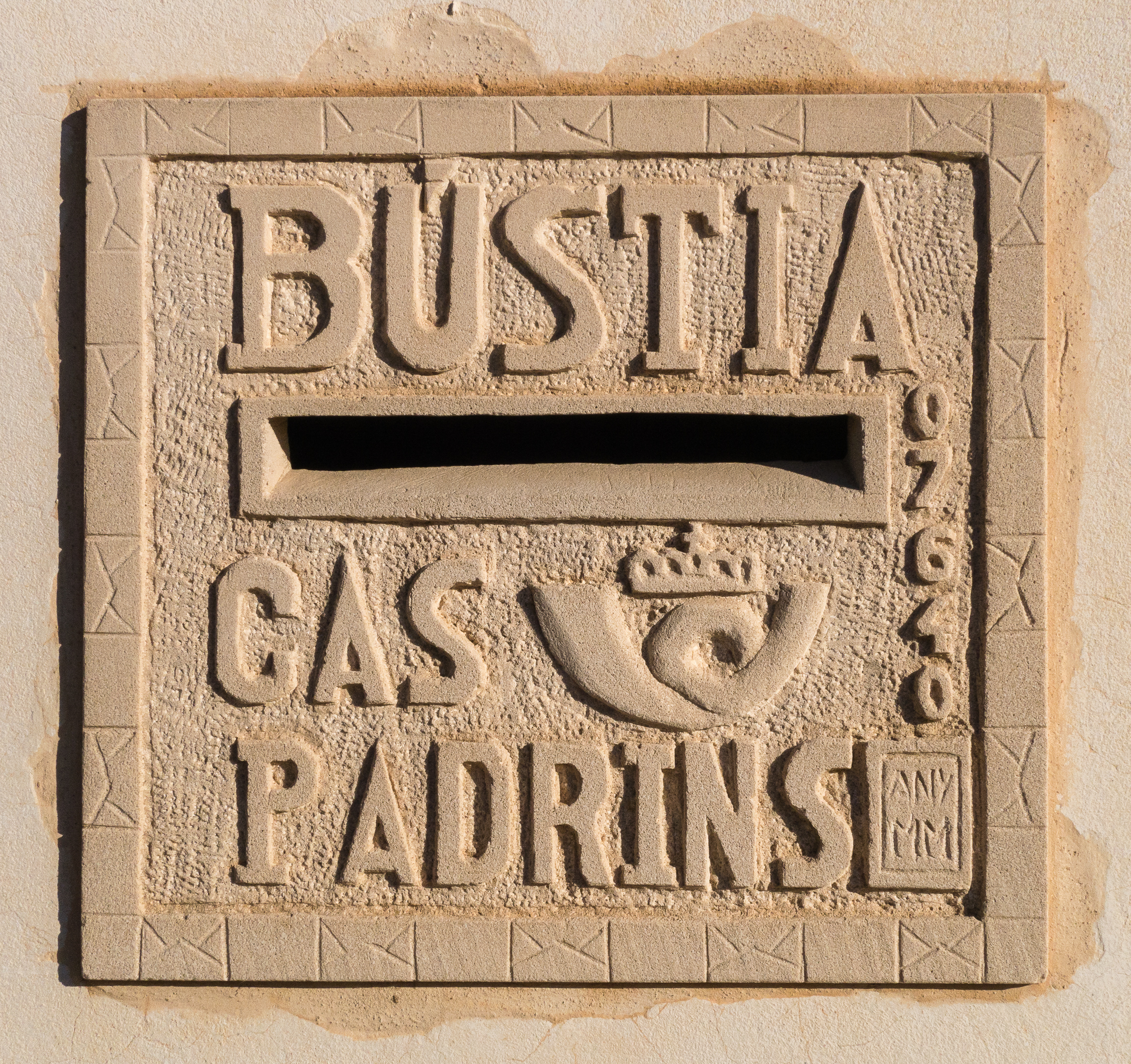 Description: Sandstone letter-box. Location: Carrer Camplladó Place: Ses Salines, Majorca, Balearic Islands, Kingdom of Spain